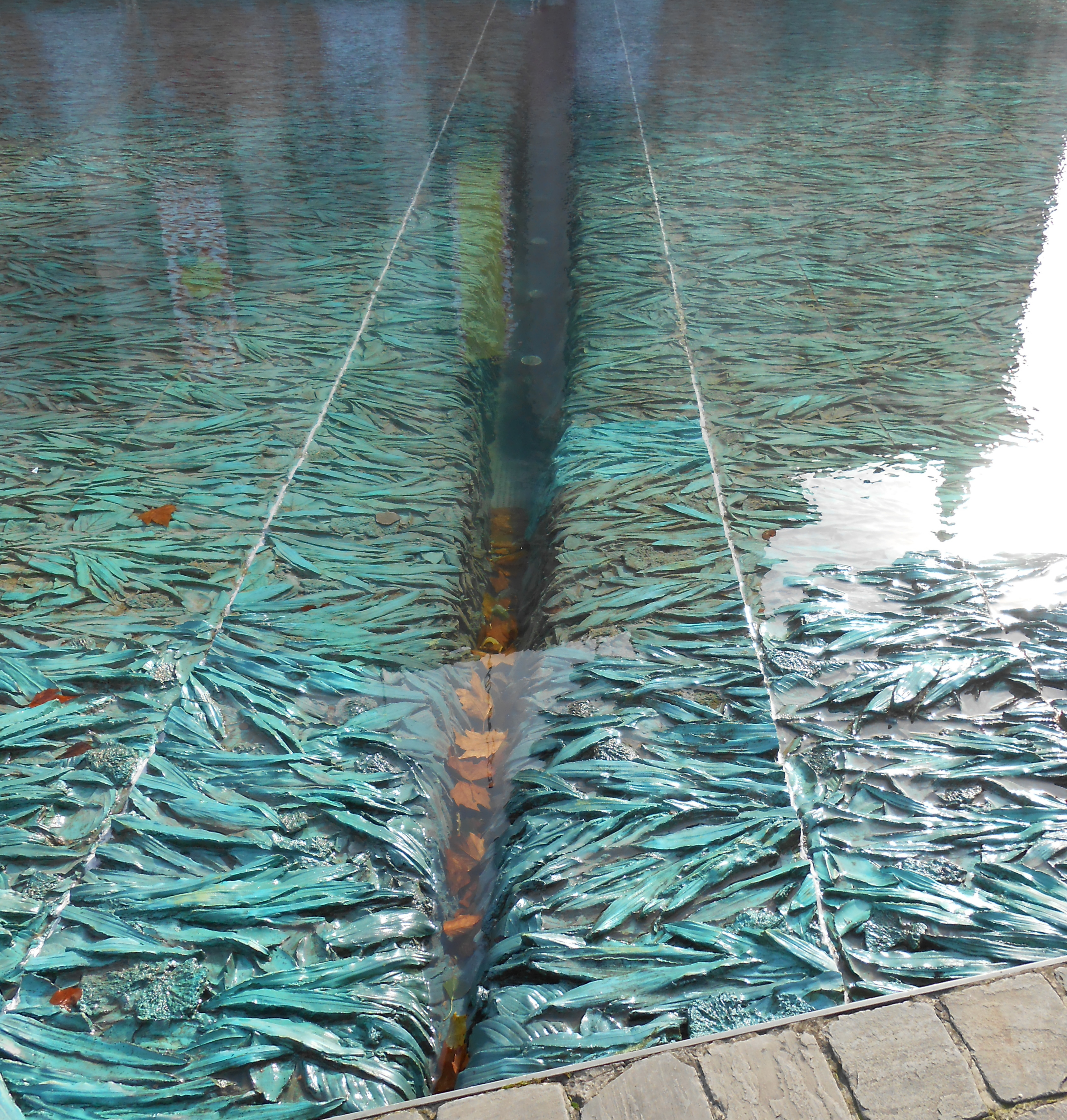 Public artwork Deep Fountain by Cristina Iglesias in front of the Museum of Fine Arts Antwerp